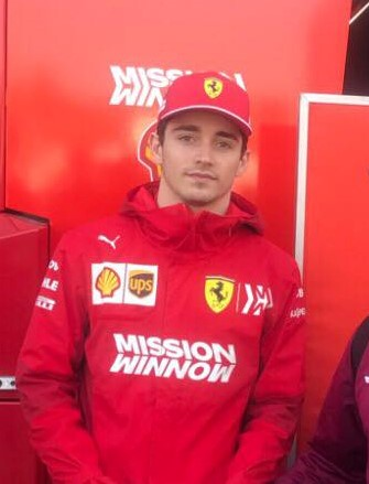 2019 Formula One tests Barcelona, Leclerc.